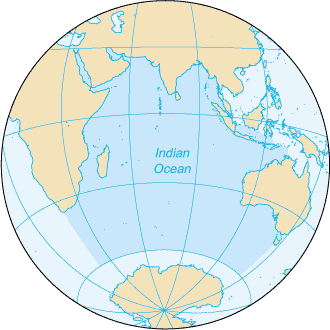 Map of The Indian Ocean with English captions.